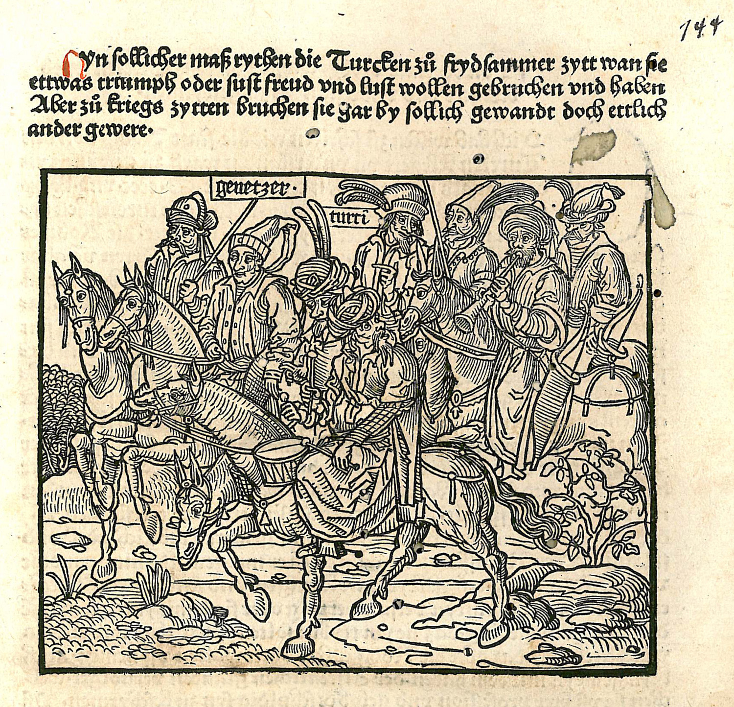 Bernhard von Breydenbach. Peregrinationes in Terram Sanctam, Speyer, 1486 (1st ed.) / 1502 (2nd ed.).